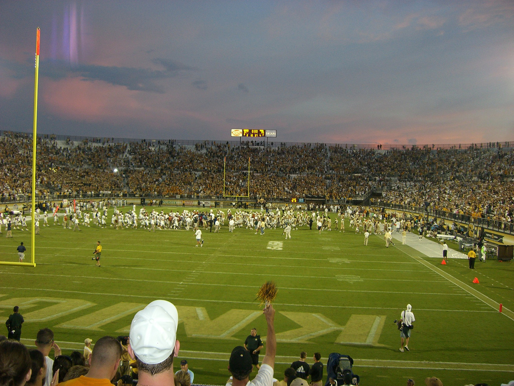 Texas at UCF, end of game, dusk